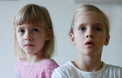 Fotografie Sylvy Francové; Sylva Francová´s photographs Neměňte rozlišení. Don´t change resolution! Personality rights warningAlthough this work is freely licensed or in the public domain, the person(s) shown may have rights that legally restrict certain re-uses unless those depicted consent to such uses. In these cases, a model release or other evidence of consent could protect you from infringement claims.